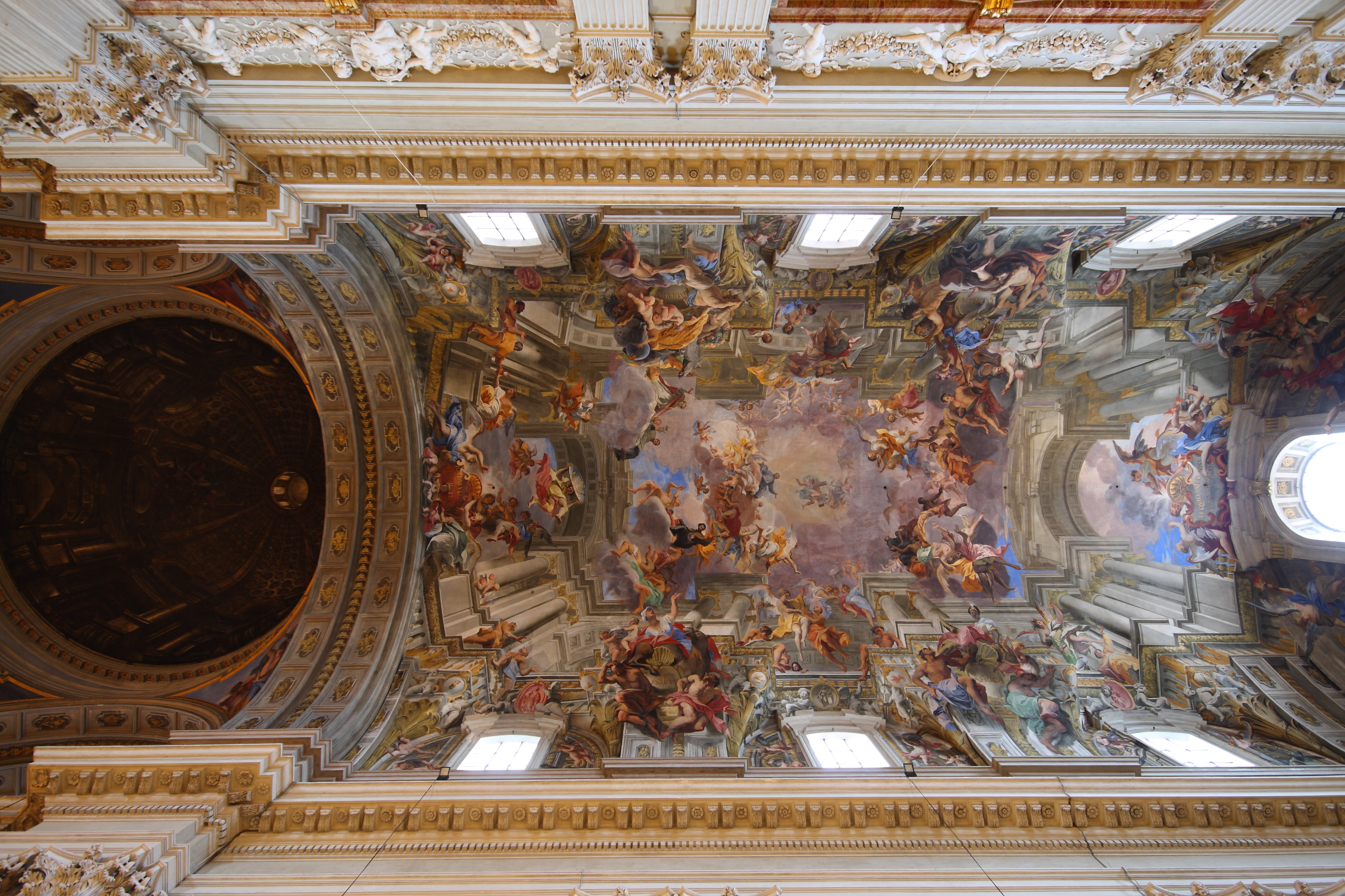 Sant'Ignazio in Rome. Trompe l'oeil ceiling fresco. The ceiling is completely flat, including the dome on the left. The photograph is taken from floor level in the centre of the church. The illusion effect of the dome is slightly better from a higher vantage point (eye level).